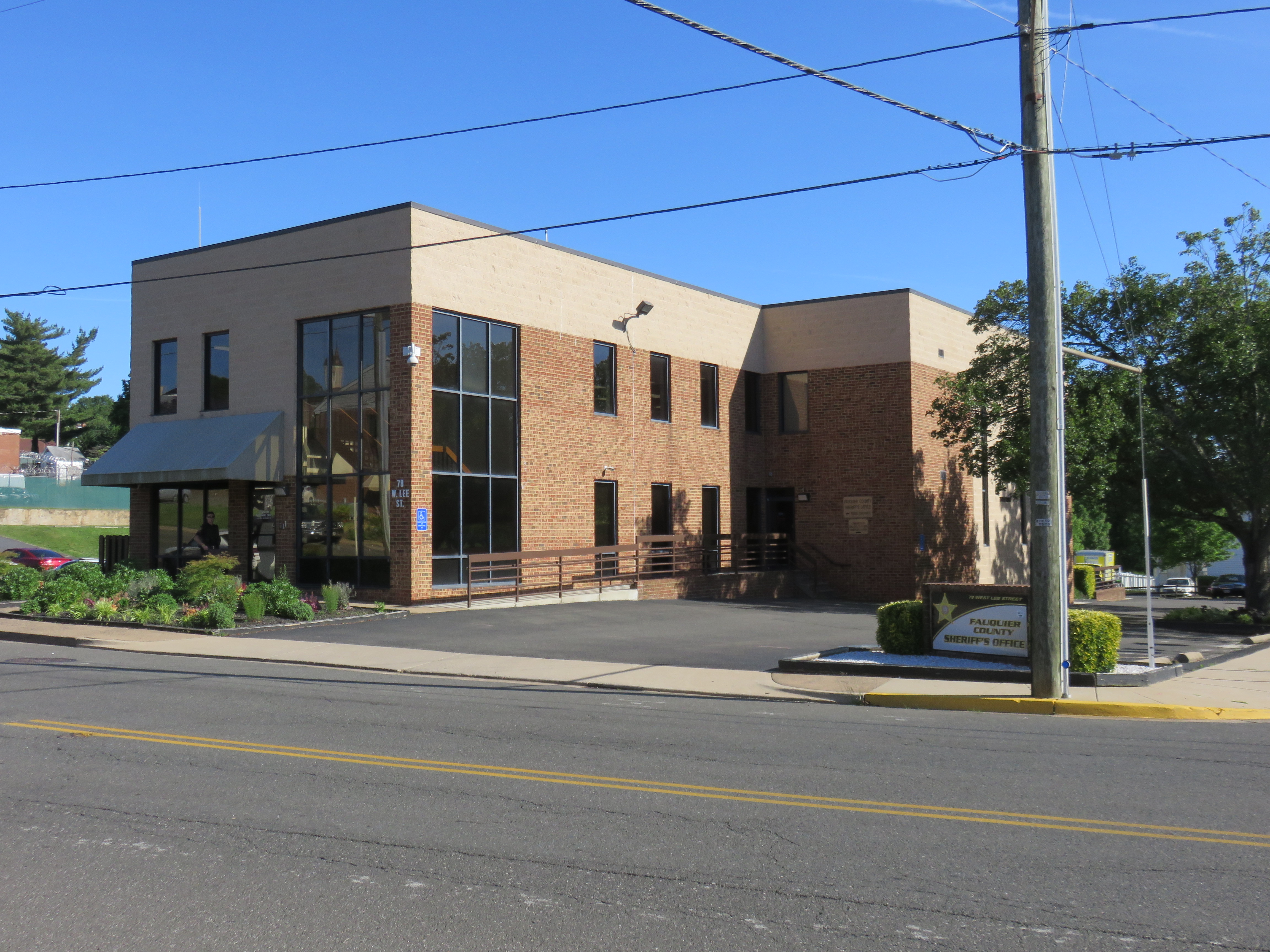 Fauquier County Sheriff's Office in Warrenton, Virginia in 2020